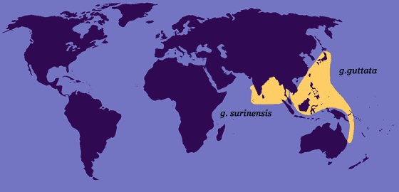 Occurrence of Perisserosa guttata.